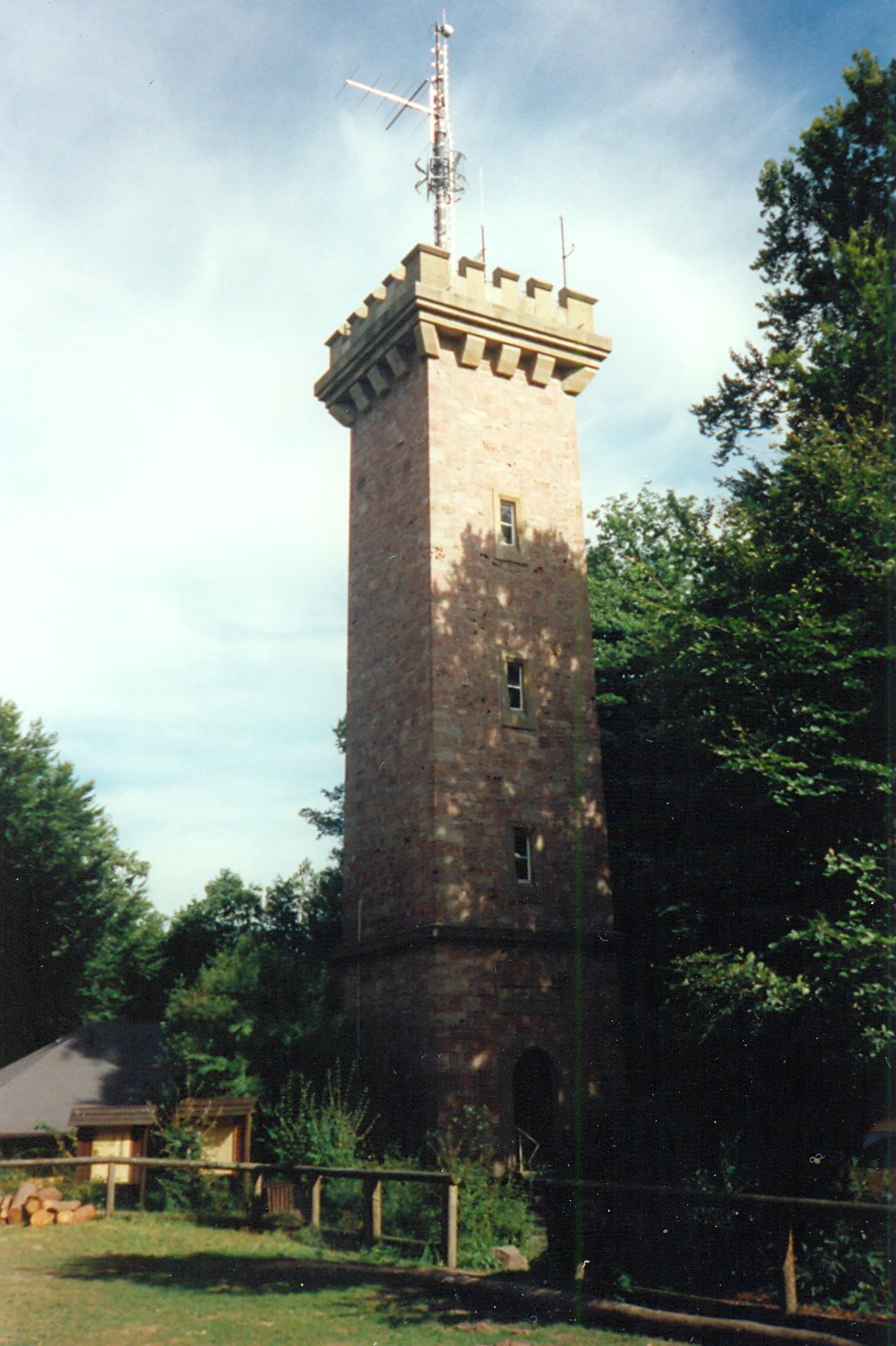 Ludwigsturm in the citiy of Bad Kissingen, Bavaria, Germany